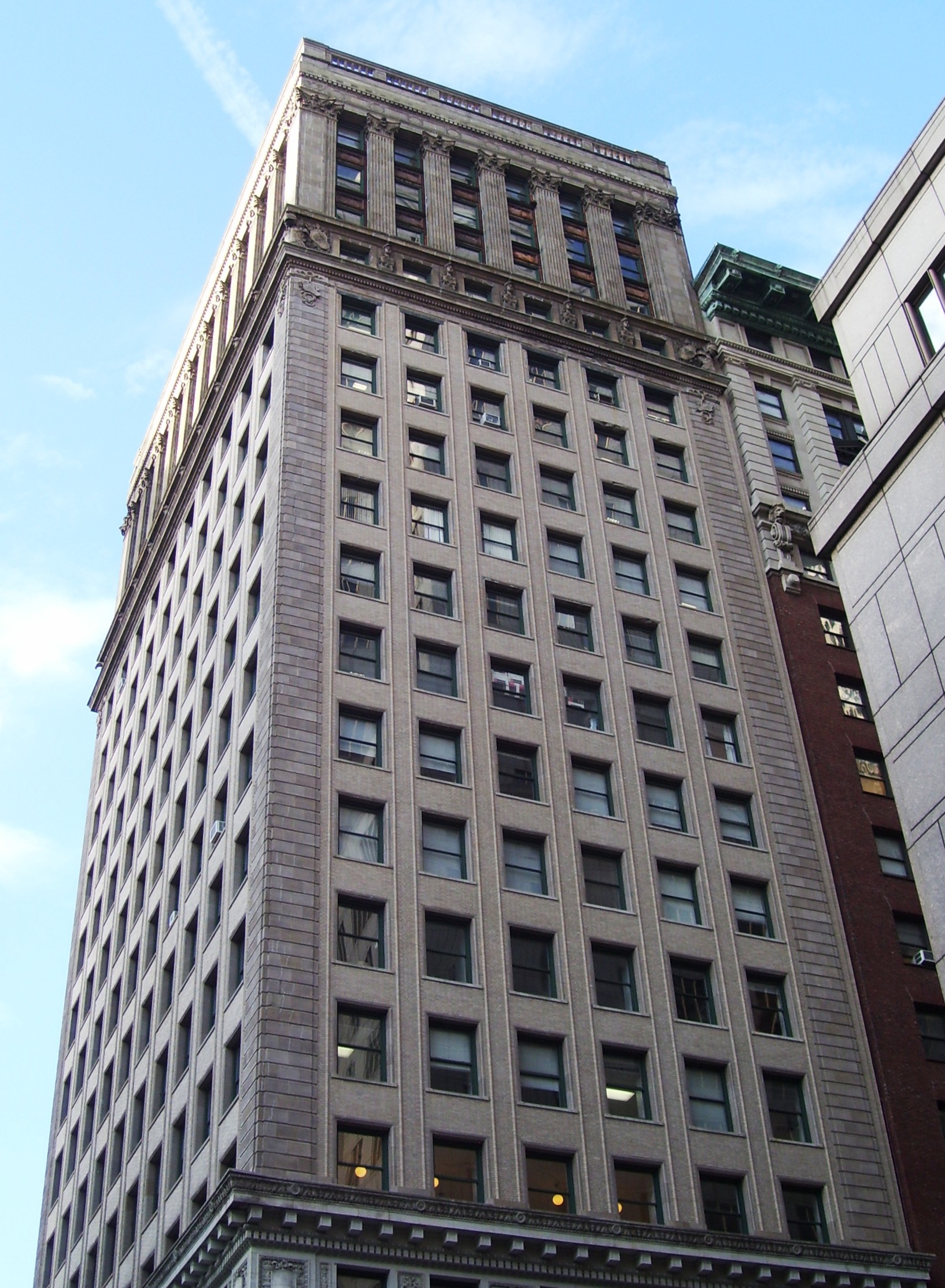 291 Broadway at the corner of Reade Street, also known as 52 Reade Street, in the Tribeca neighborhood of Manhattan, New York City, is a 19-story office building built in 1910-11 and was designed by Clinton & Russell in the Beaux-Arts style. (Sources: NYC GIS map, Emporis page)